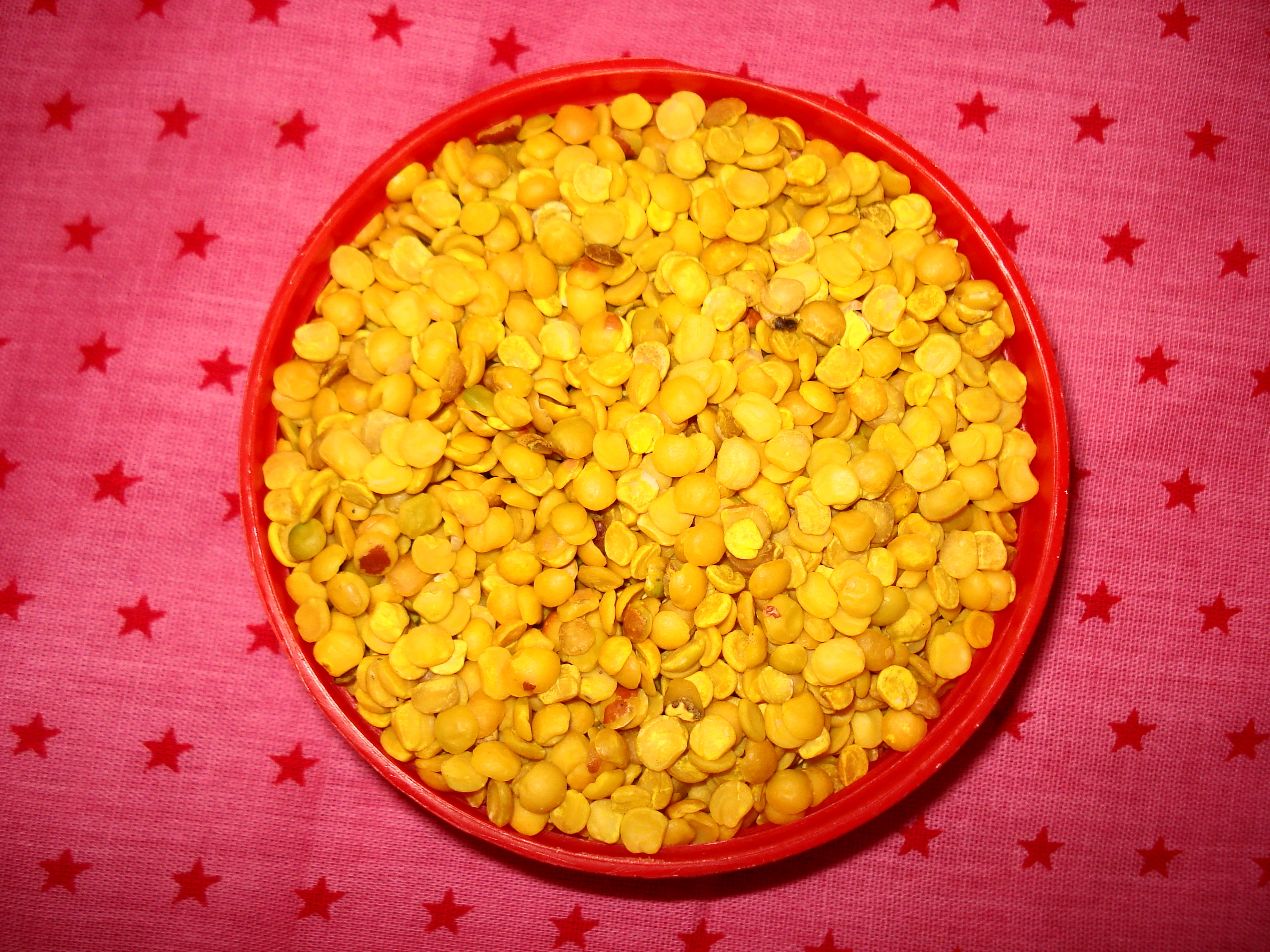 Tur Dal or Toor dal, Arhar Ki dal